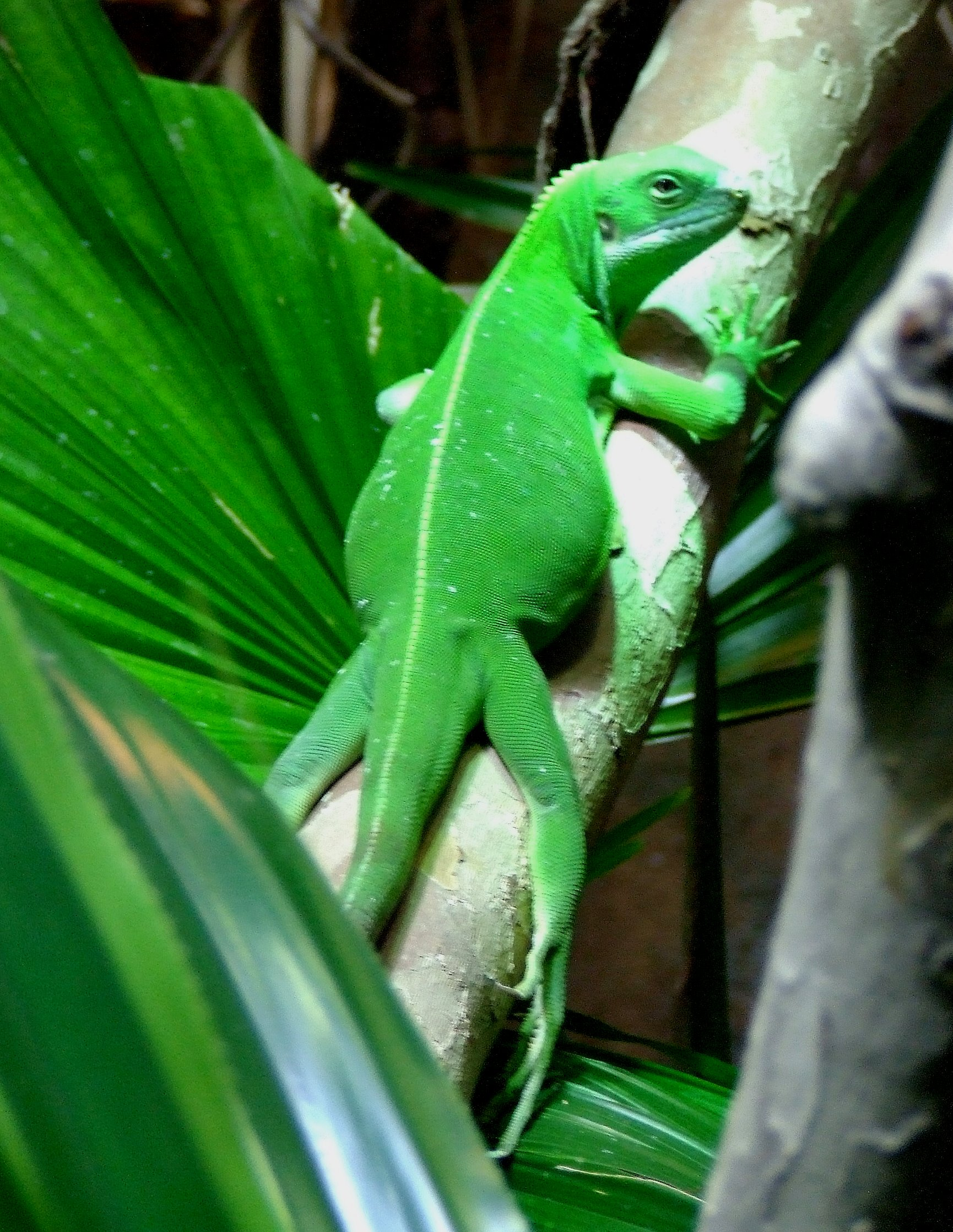 Brachylophus bulabula, an iguanid lizard endemic to some islands of Fiji. This individuum was shown in the Aquarium of the Cologne Zoological Garden.